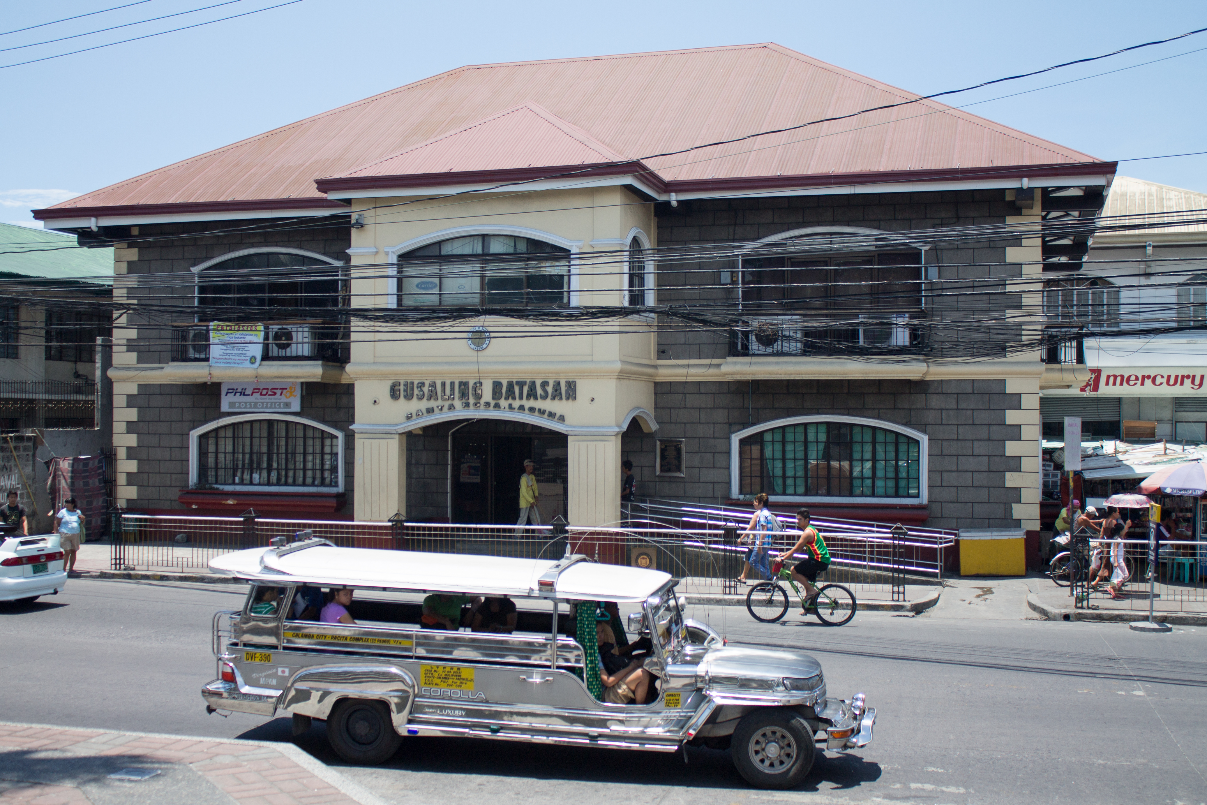 City Hall of Sta. Rosa, Laguna